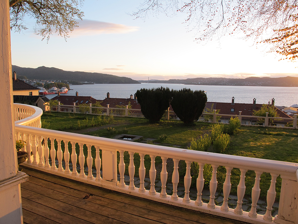 Best view in Bergen.